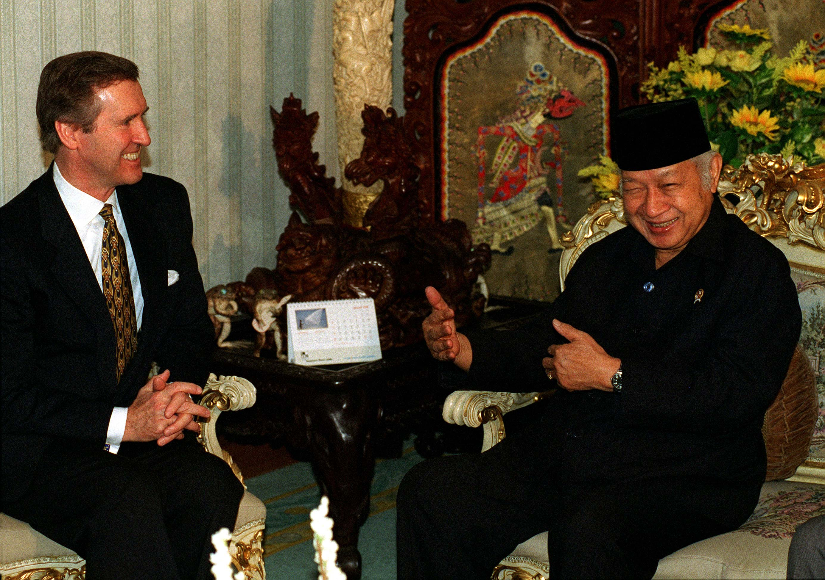 Secretary of Defense William Cohen (left) meets with Indonesian President Suharto at his residence in Jakarta on January 14, 1998. Cohen is spending two days in Indonesia as part of his 12-day tour of seven Far Eastern nations.